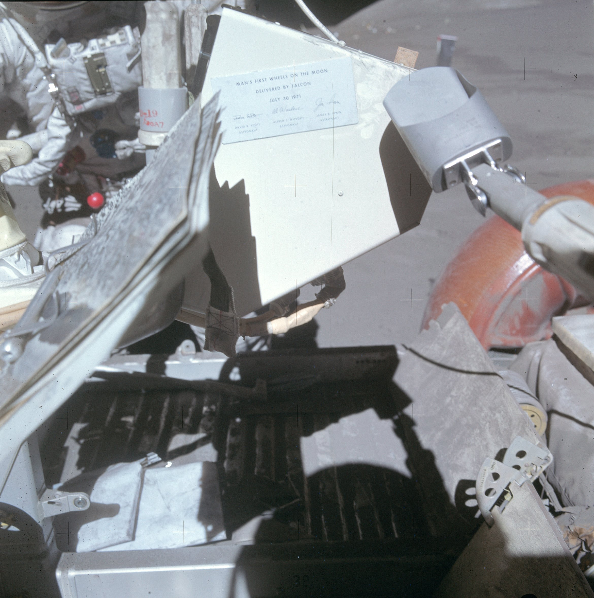 The commemorative placard on the righthand side of the Rover's console, which reads: "Man's First Wheels on the Moon. Delivered by Falcon, July 30, 1971".